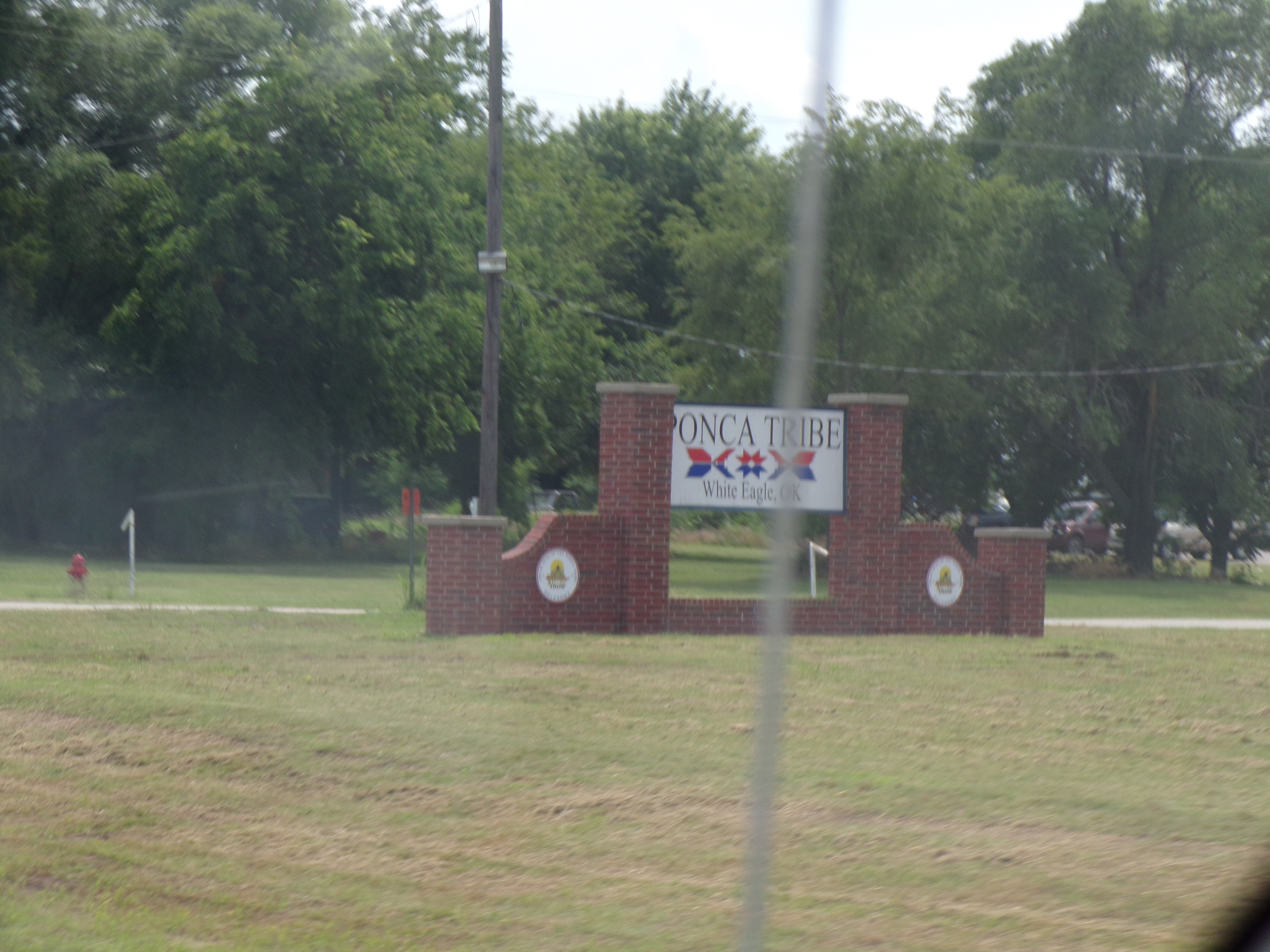 I took this picture in White Eagle, Oklahoma.